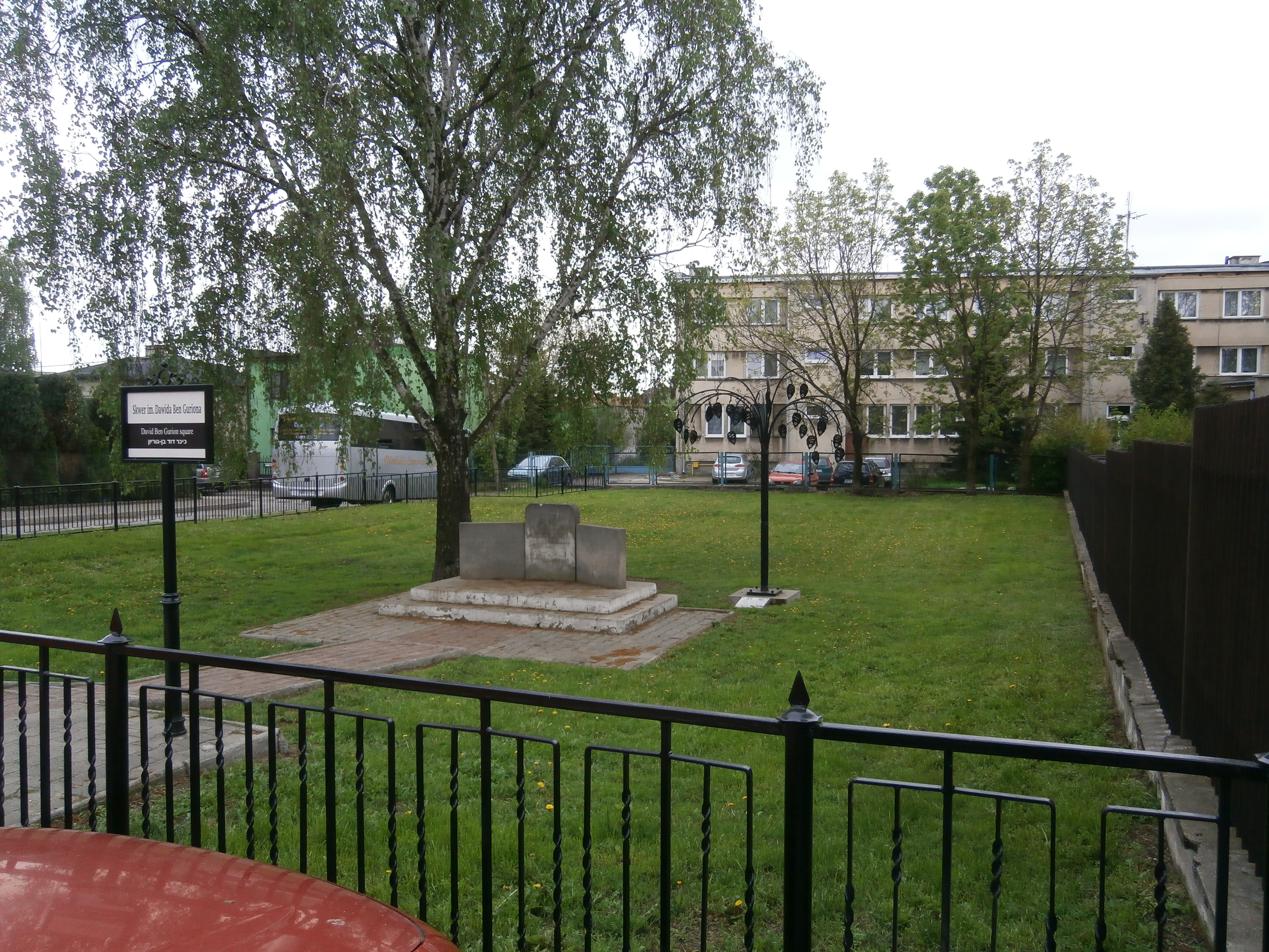 David Ben Gurion Square - place where he was born, Płońsk, Wspólna Street